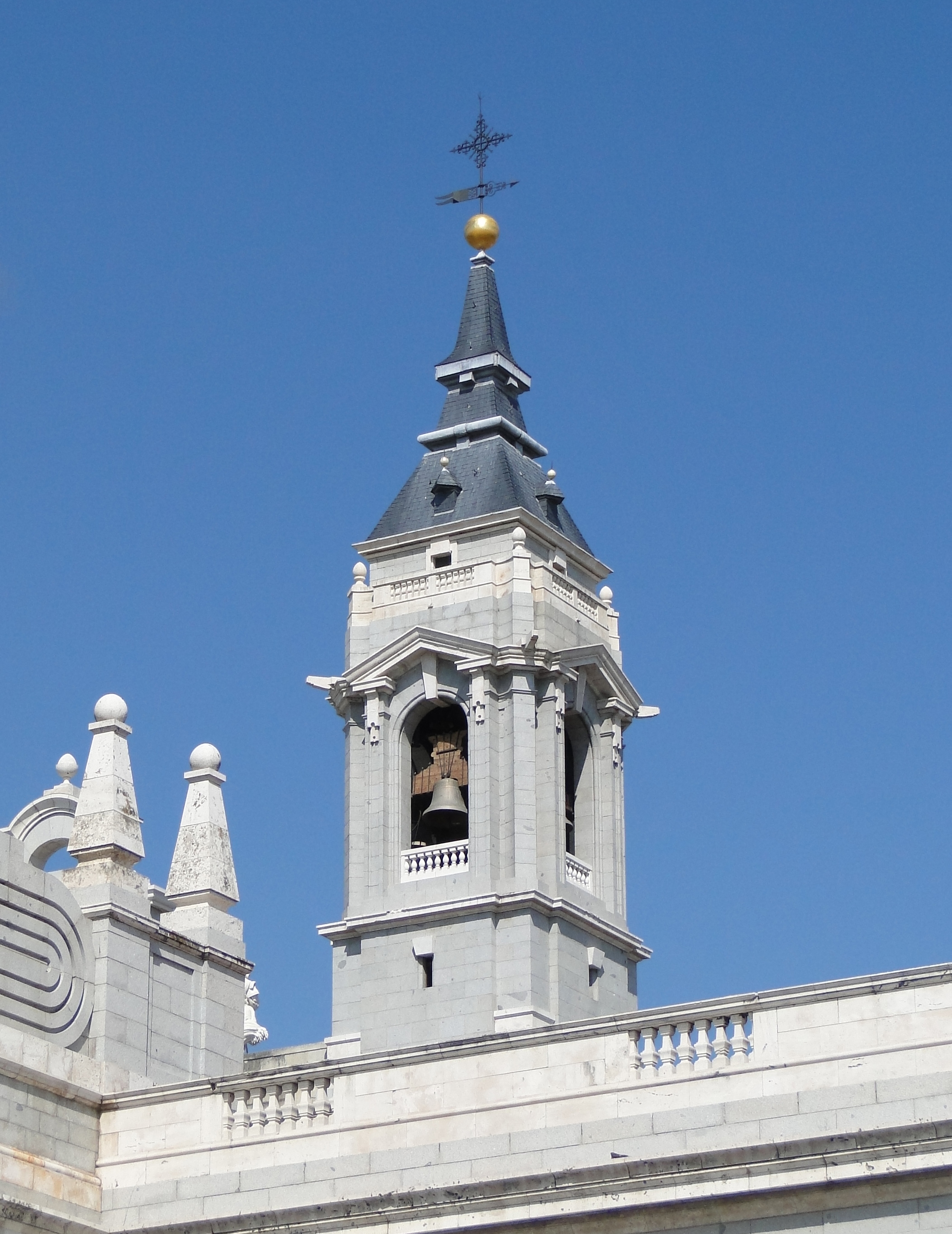 A bell tower of the Almudena Cathedral, Madrid, Spain